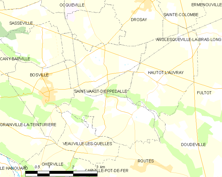 Map of French municipality Saint-Vaast-Dieppedalle